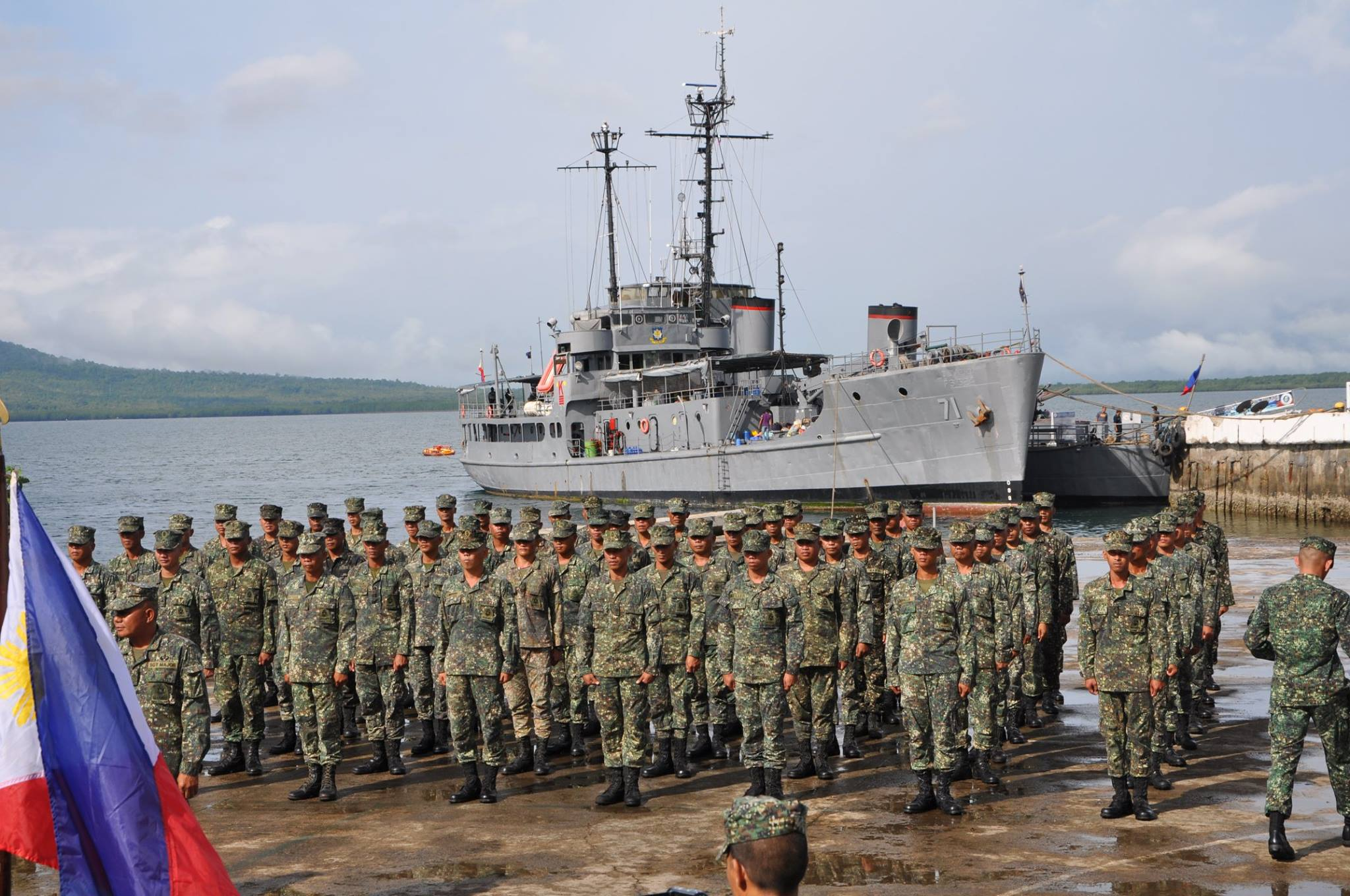 A ship of the Philippine Navy, BRP Mangyan (AS-71).